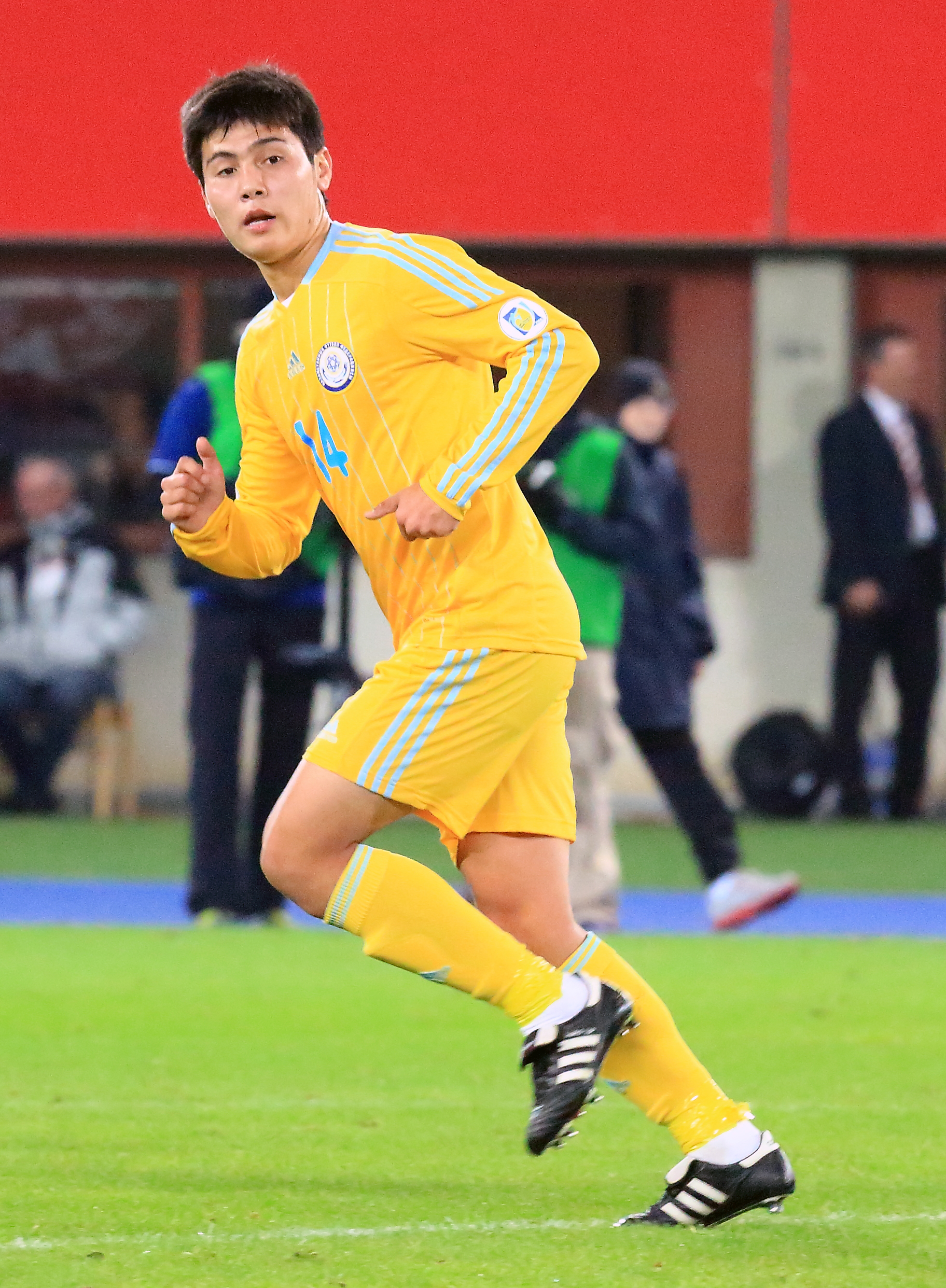 Islamkhan during the match between Austria and Kazakhstan in 16 October 2012.